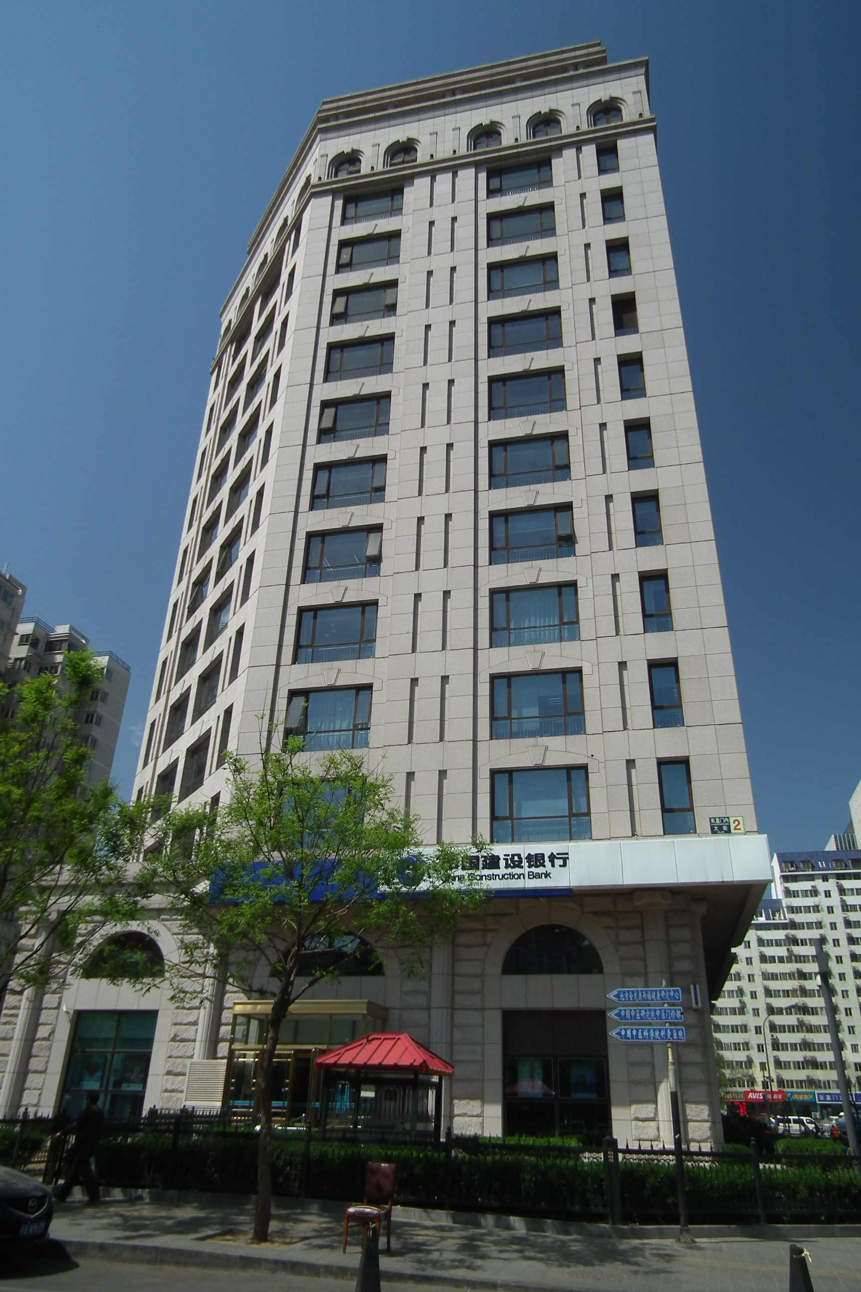 China Construction Bank Beijing